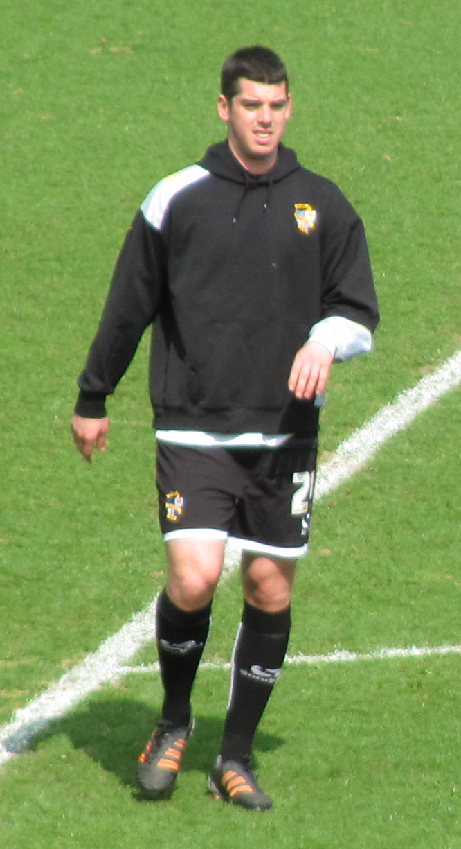 Pictured during the 2-2 draw between Port Vale and Northampton Town on 20 April 2013.